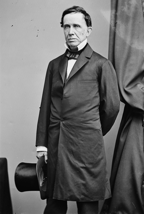 James I. Roosevelt, Congressman and Judge